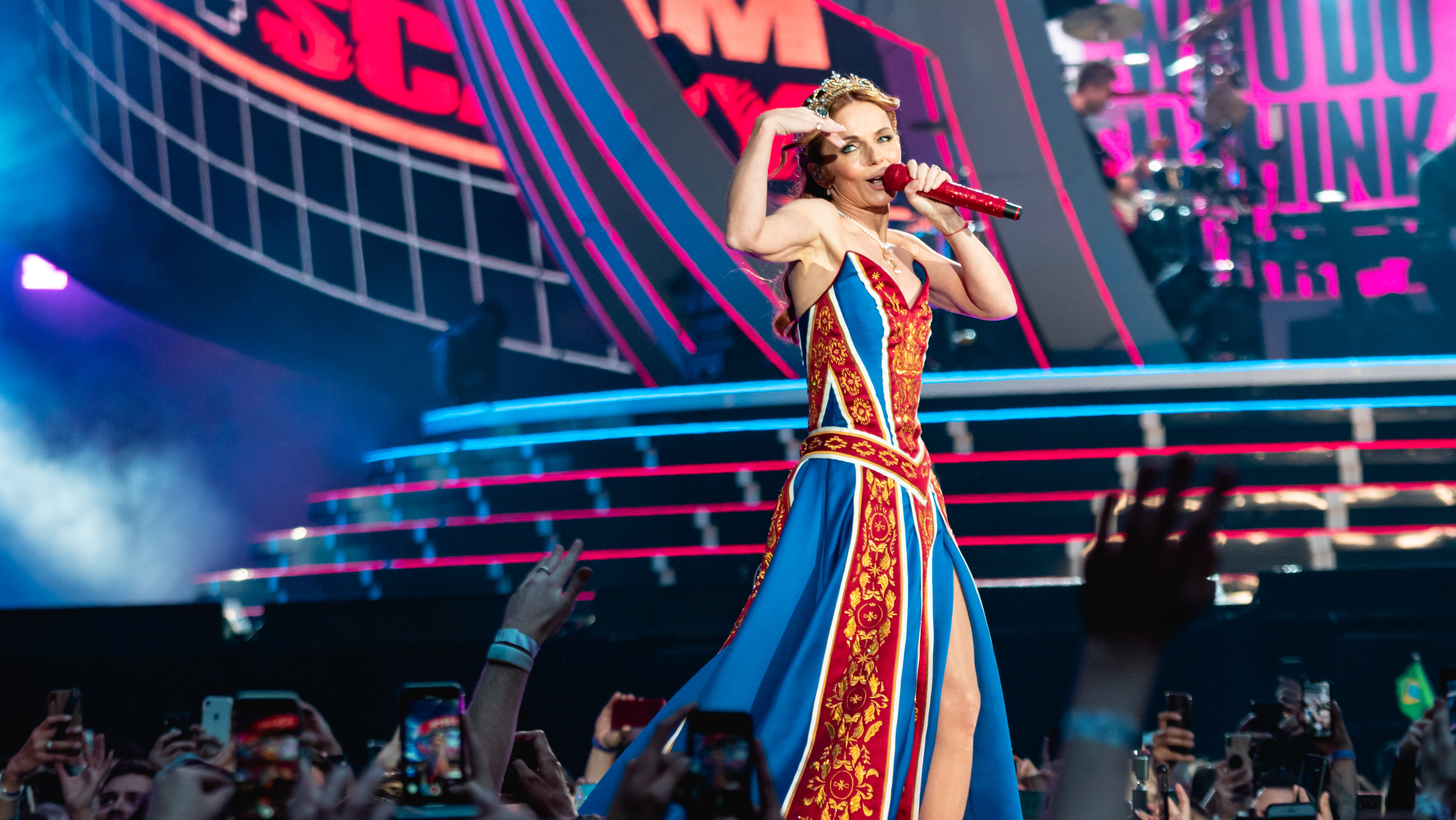 SpiceGirlWembley150619-21